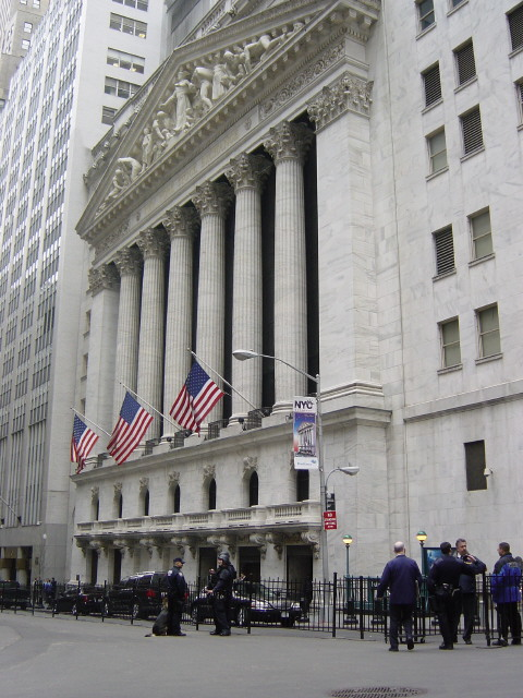 The New York Stock Exchange building is blockaded by security personel and police armed with M16 machine guns and police dogs. Such security measure was in response to the 9/11 terrorist attack to the US. Years ago, tourists could watch stock traders work on the Exchange's tradefloor from the balcony of the mezzanine level. The building is no longer open to the public.